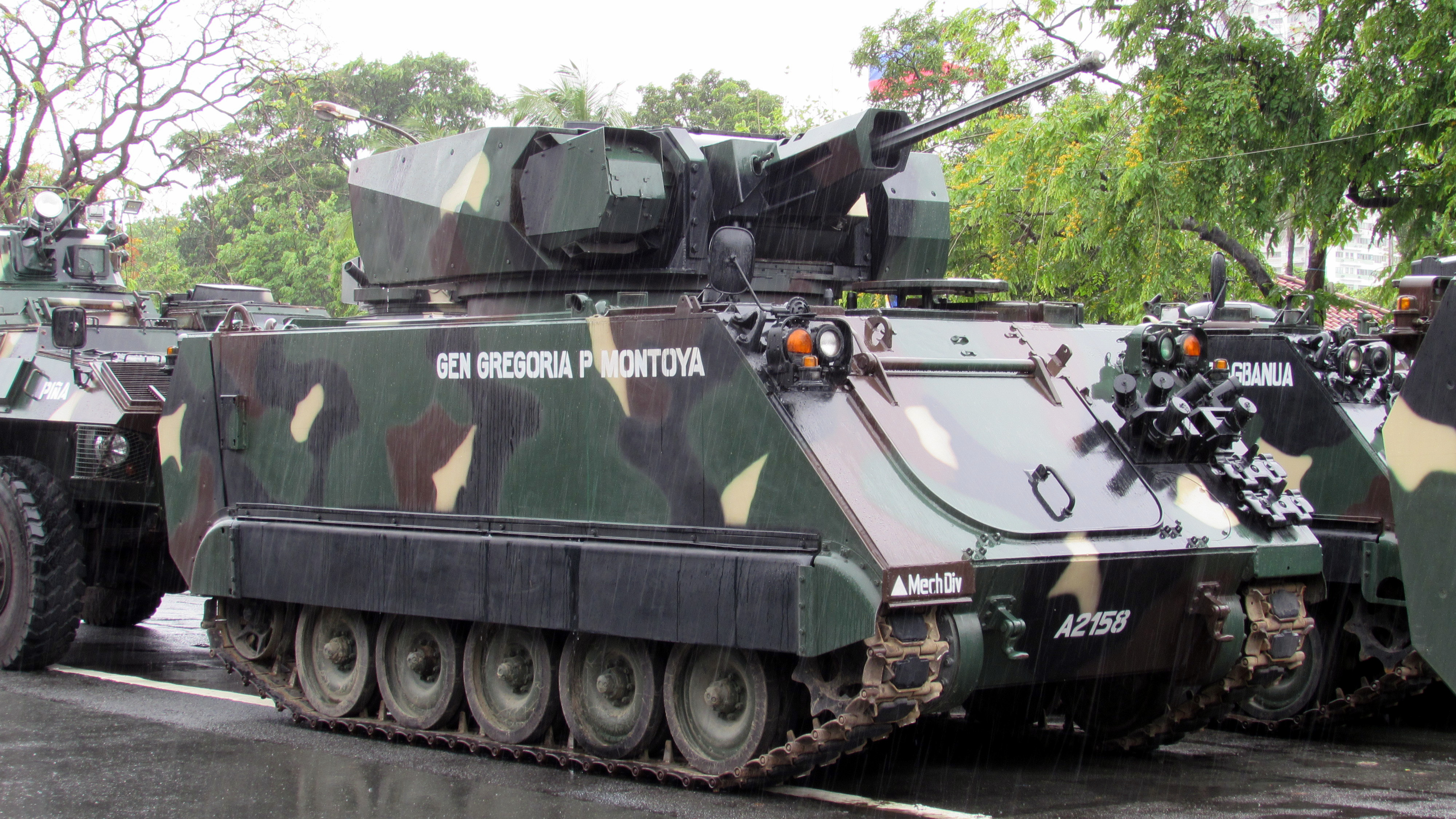 An oblique view of an M-113 vehicle of the Philippine Army (PA) with a UT-25 Remote Weapons Station (RWS). Photo taken during the 2018 Kalayaan Parade in Luneta.